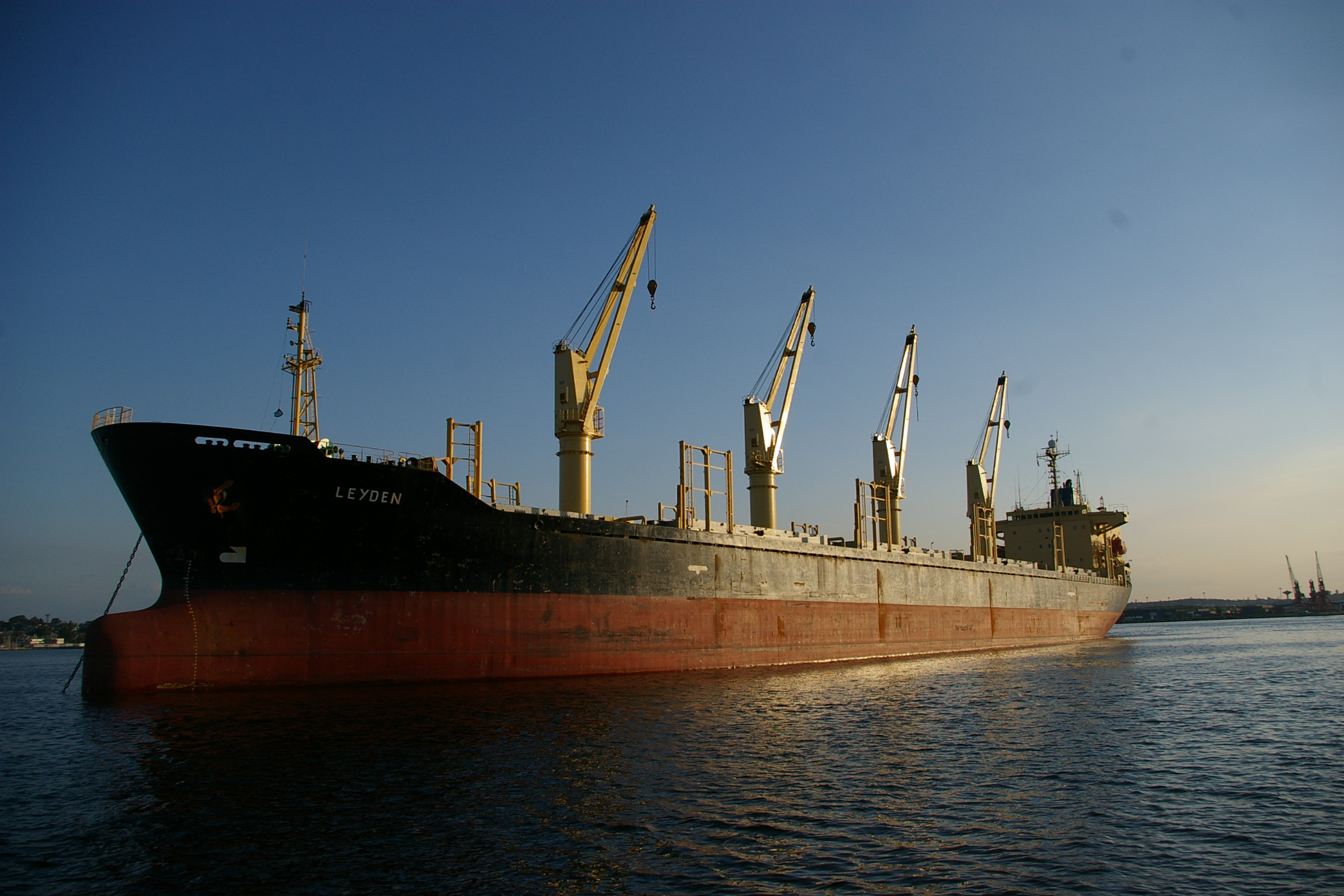 Leyden freighter, Havana Harbor